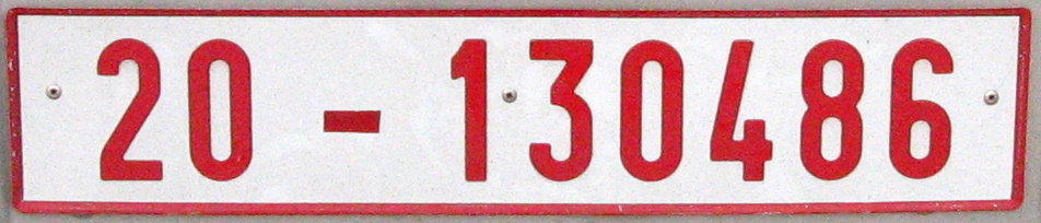 Tunisian 20 Ministerial (Ministery of Public Health) license plate, Tunisia